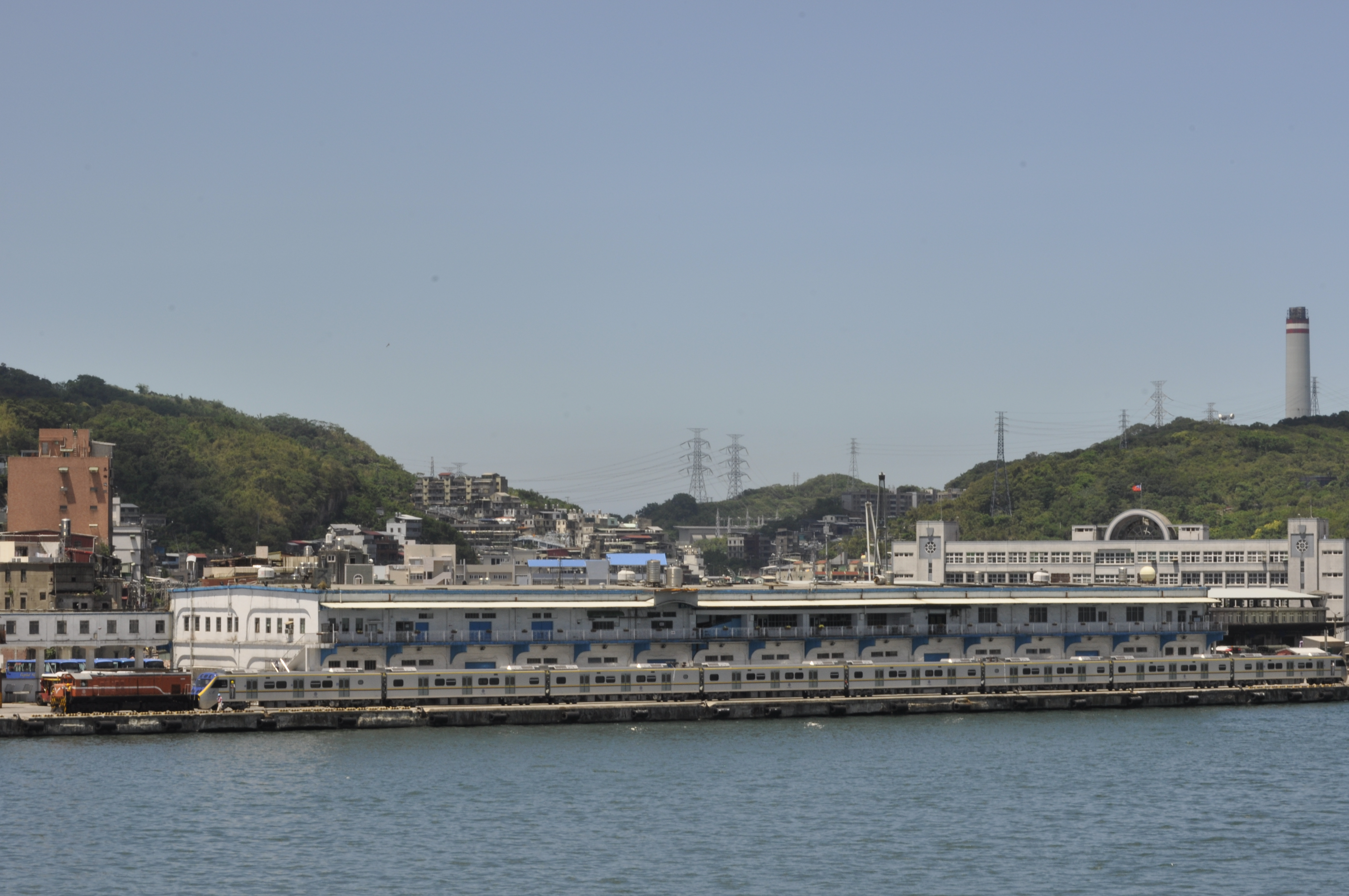 EMU801-802 is being towed